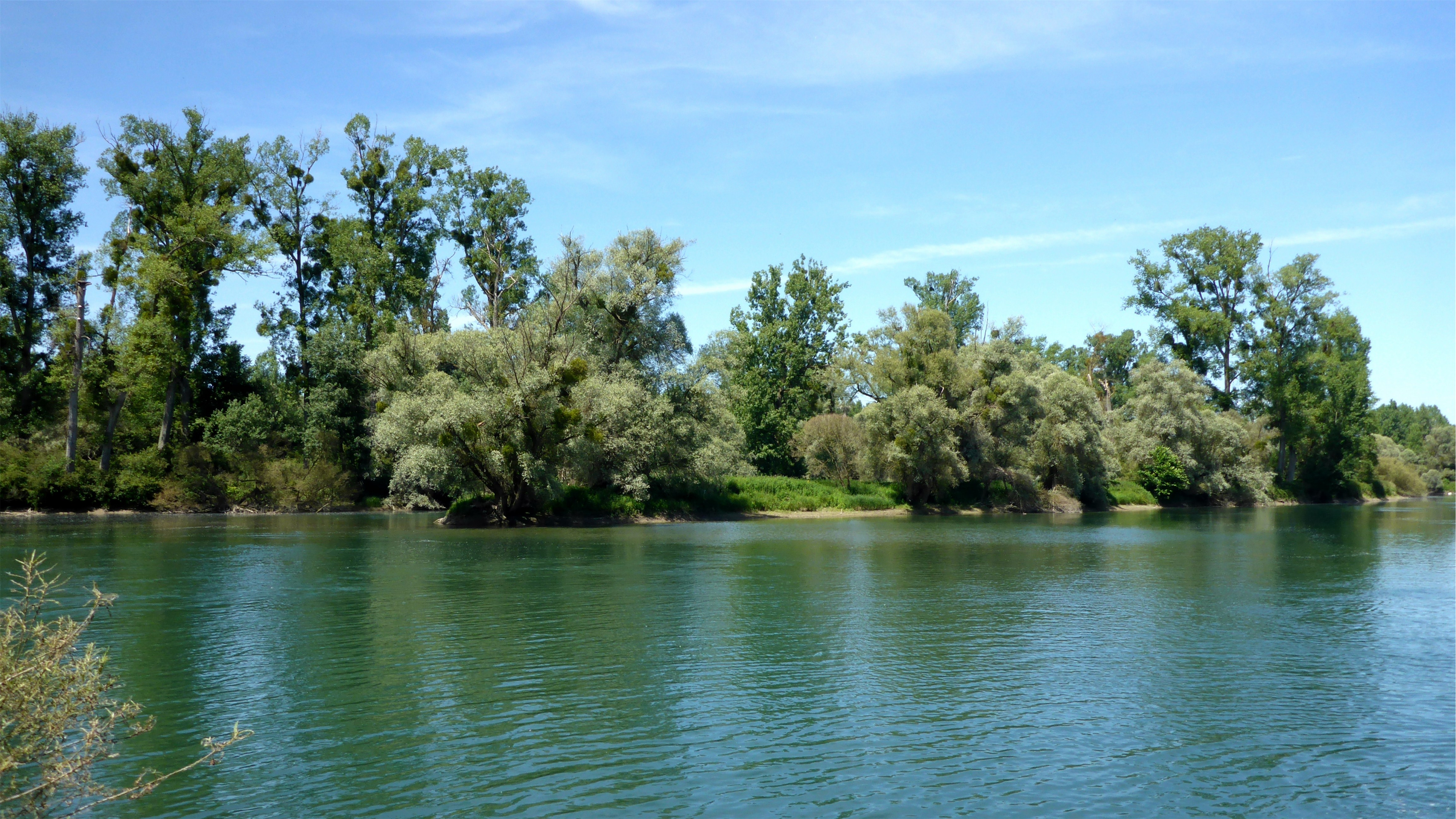 Naturschutzgebiet „Bremengrund“ is a nature reserve in Baden-Württemberg, Germany.